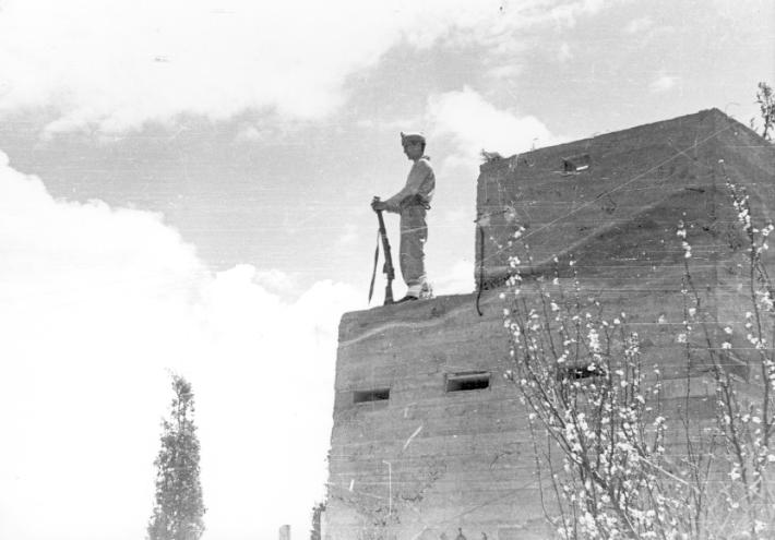 Mishmar HaEmek defences. 1948